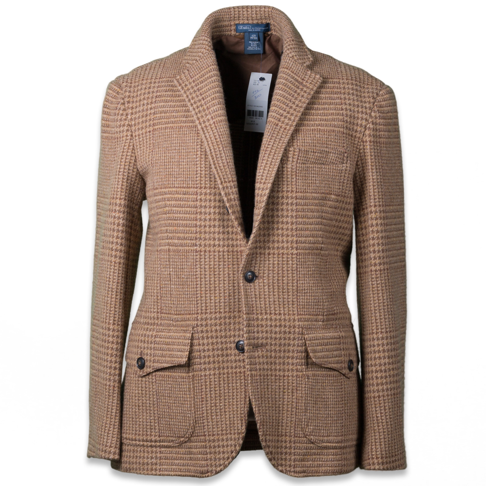 Sport coat (jacket) by Polo Ralph Lauren.